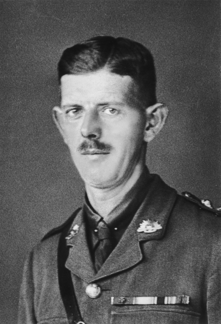 Studio portrait of Australian World War I Victoria Cross recipient, Arthur Seaforth Blackburn. He received his VC during the Battle of Pozières in 1916, and later served in World War II as a Brigadier, where he spent three years as a Prisoner of War to the Japanese.